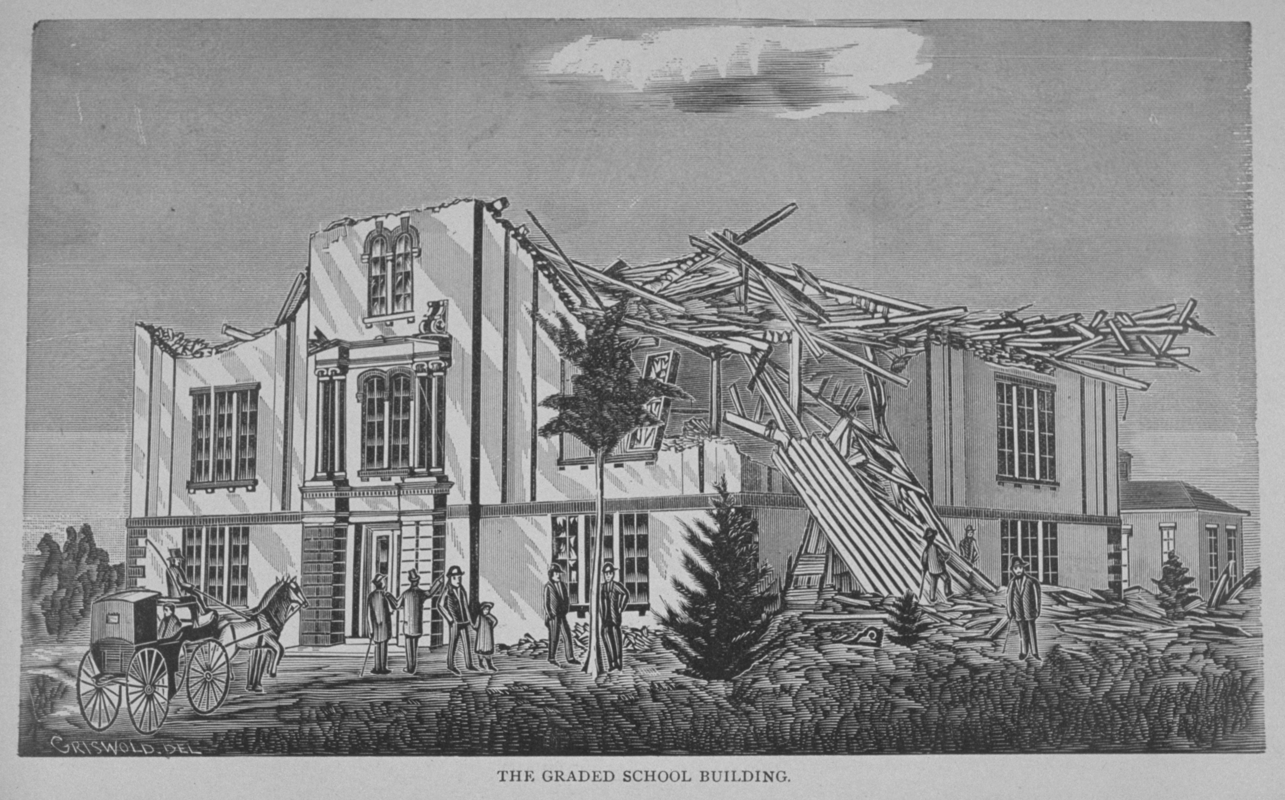 Artist's depiction of damage to the Wallingford, Connecticut grade school building from the tornado of 1878